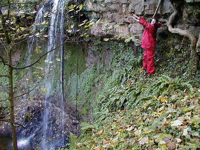 Bilsdean Glen. Above the cut-back fall at Bilsdean, near Torness Power Station - there are great sea arches nearby. All sandstone, with glacial deposits washed down.